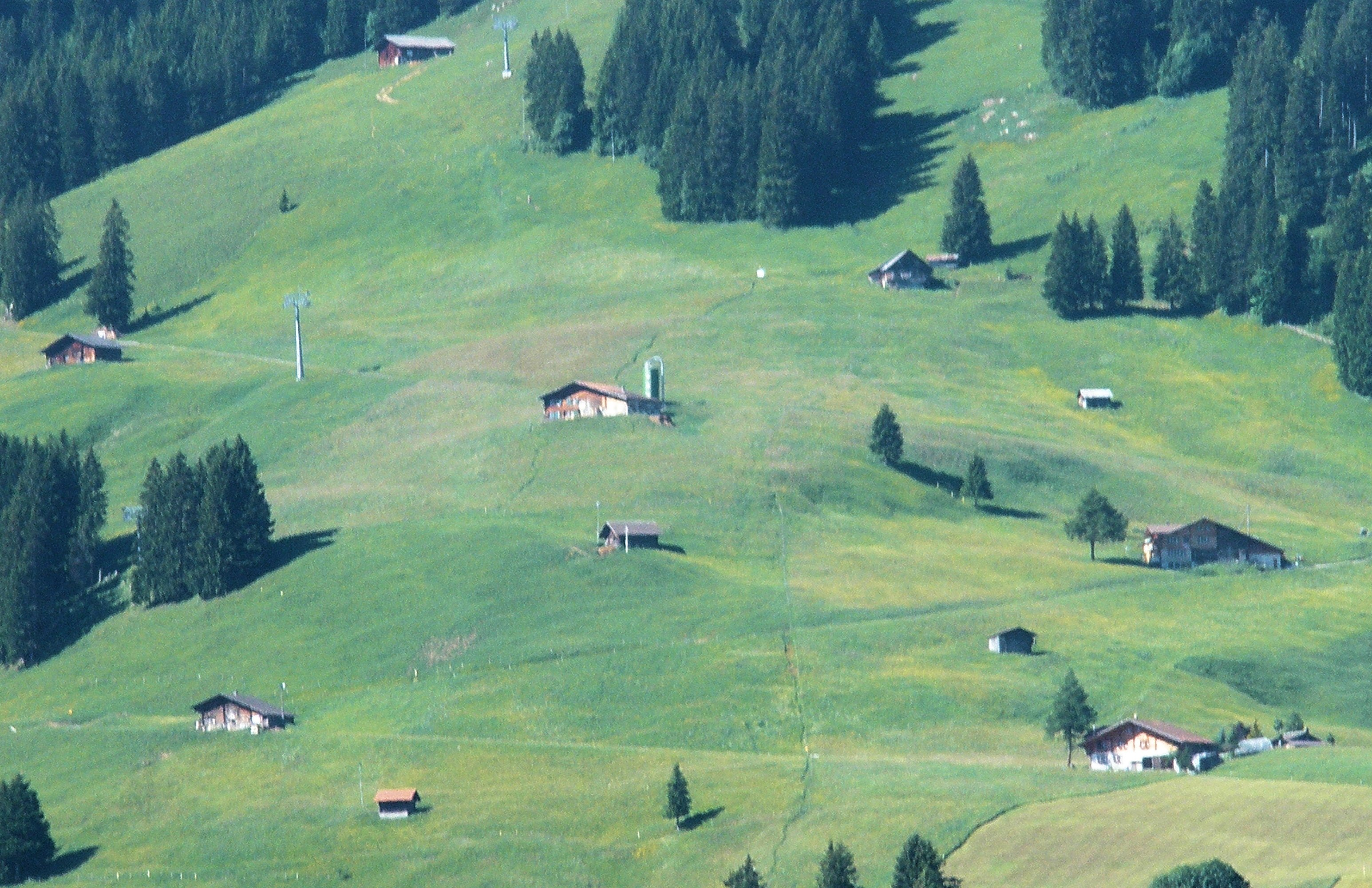 Typical dispersed settlement of Bernese Alpine house type "Frutighaus". Adelboden, Kuonisbärgli (site of FIS giant slalom). - Google Maps - Google Earth